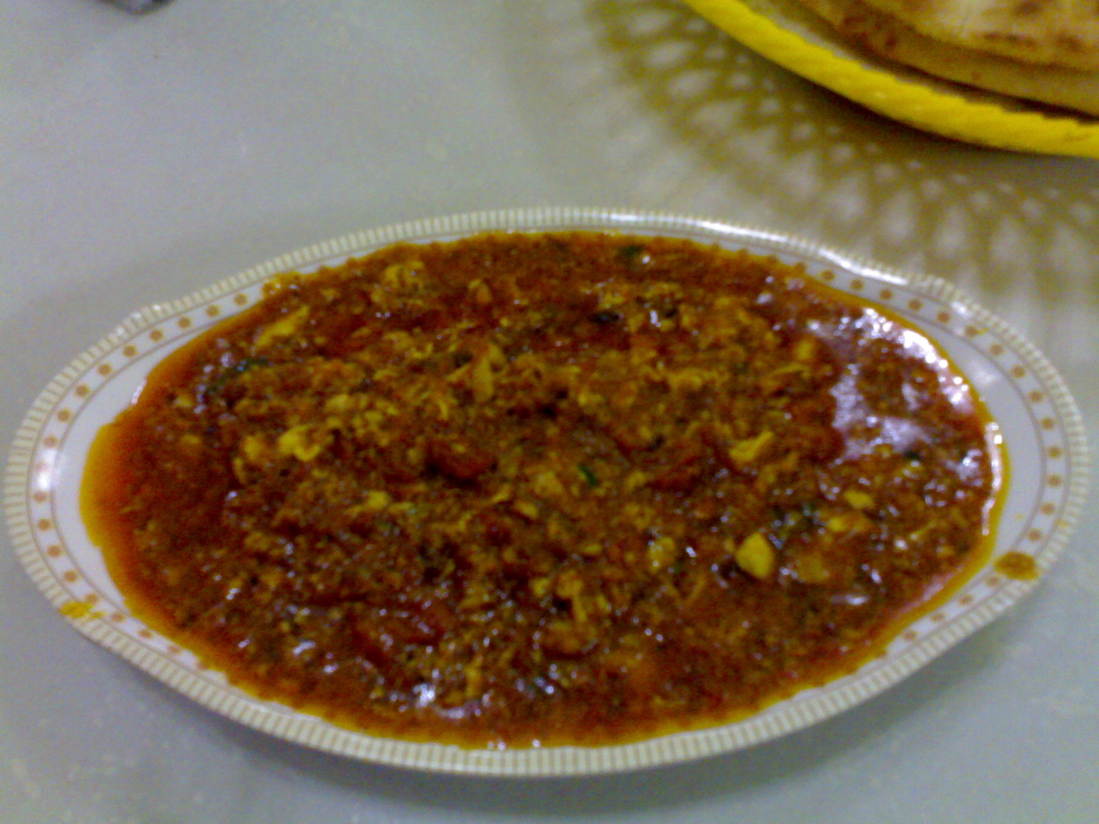 This is a plate of Magaj Masala (Goat's brain masala) i had at a Pakistani restaurant in Salmabad, Bahrain.